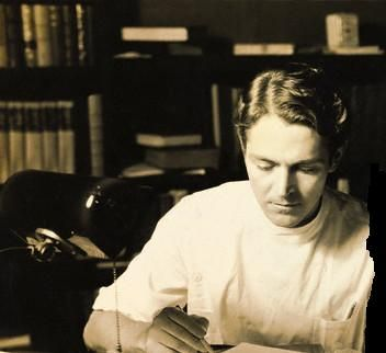 Alexander Kirkland in the Group Theatre's Broadway production of Men in White (1933)